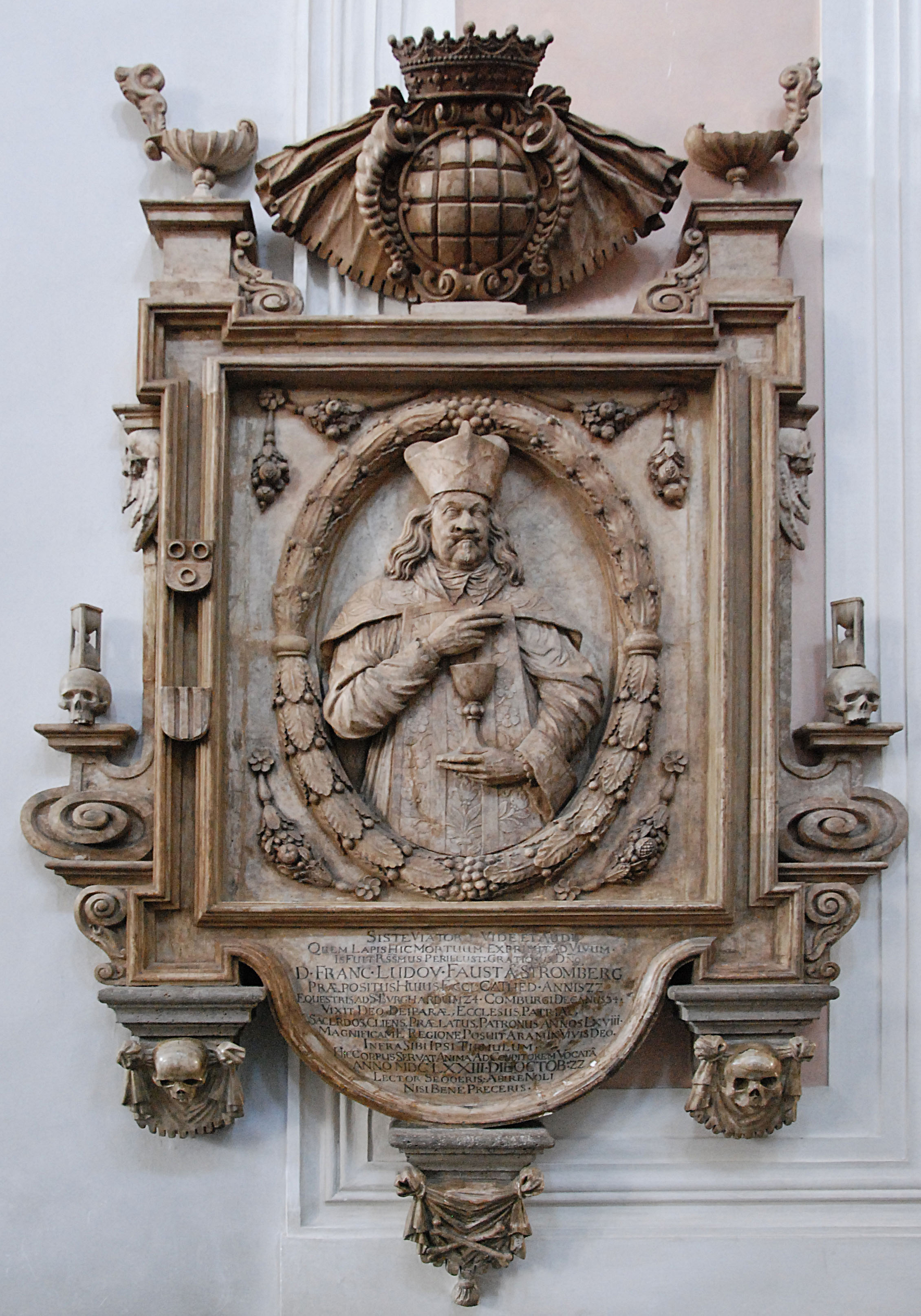 D Franc Ludov Faust von Stromberg, 1673 Wurzburg Dom